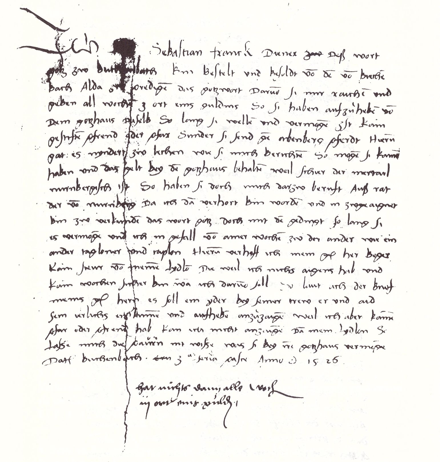 Letter to the bailiff at Schwabach. Staatsarchiv, Nuremberg.